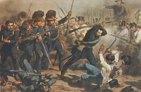 Battle of Goito, Italy (1848)